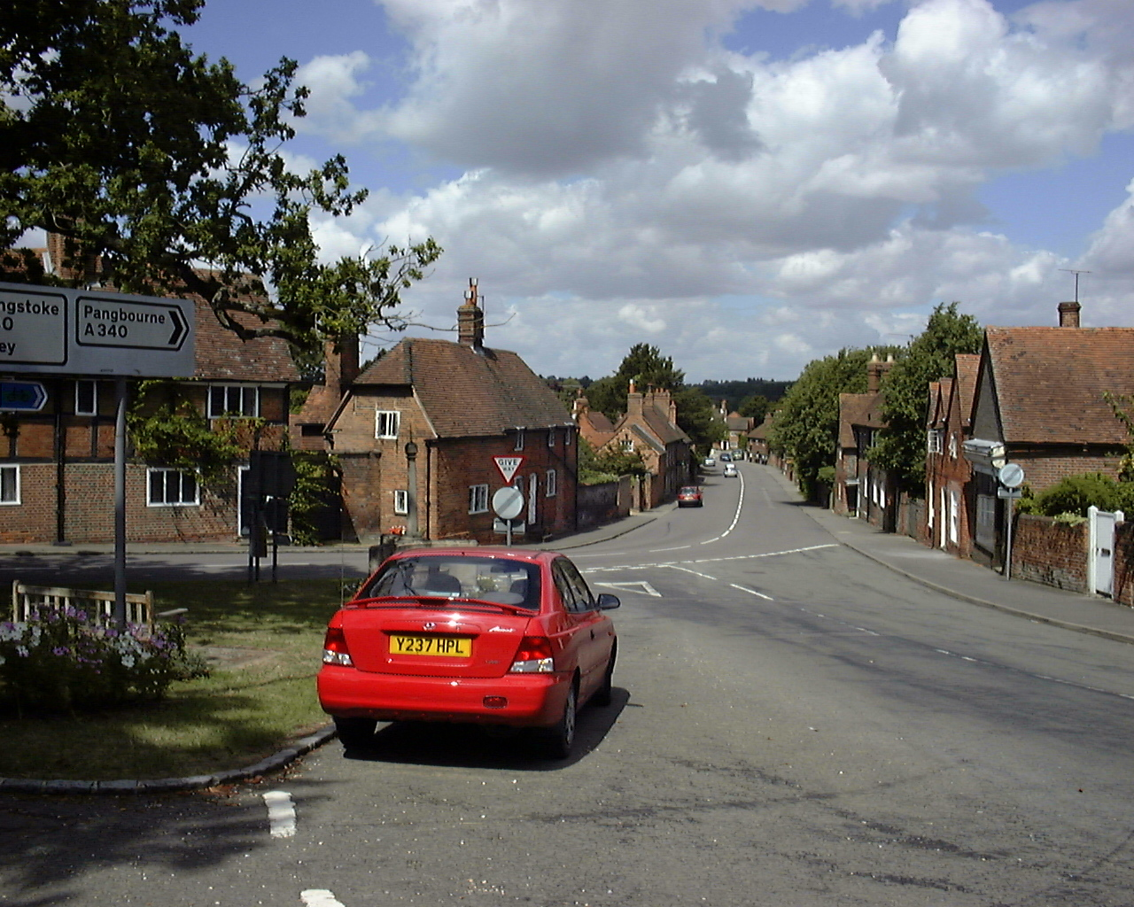 The village of Aldermaston, England, facing northwards. The picture was taken at approximately 11:30 UTC under conditions of broken cloud. The equipment used was a Toshiba PDR-M1 digital camera in Auto mode.